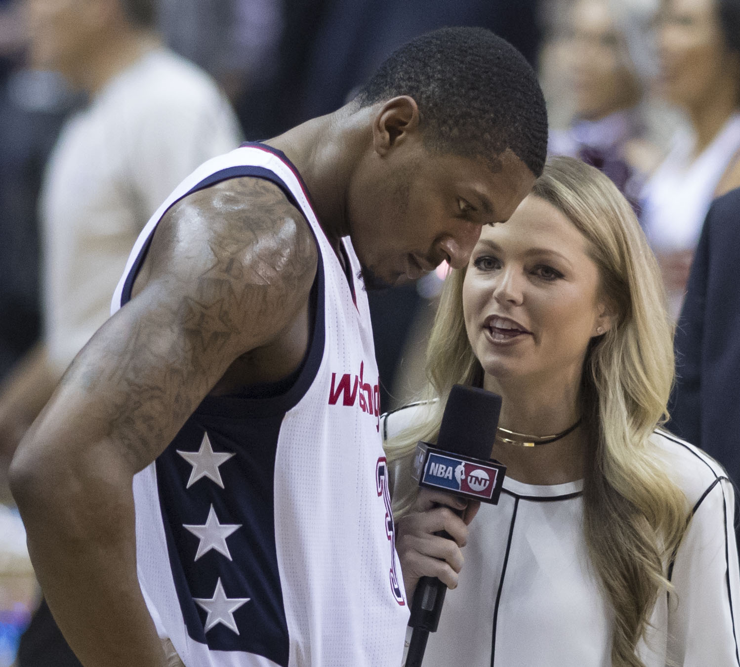 Hawks at Wizards 4/26/17